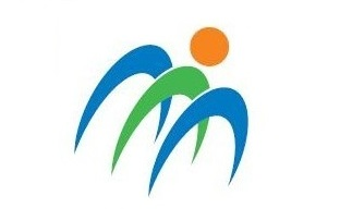 Flag of Minami Tokushima